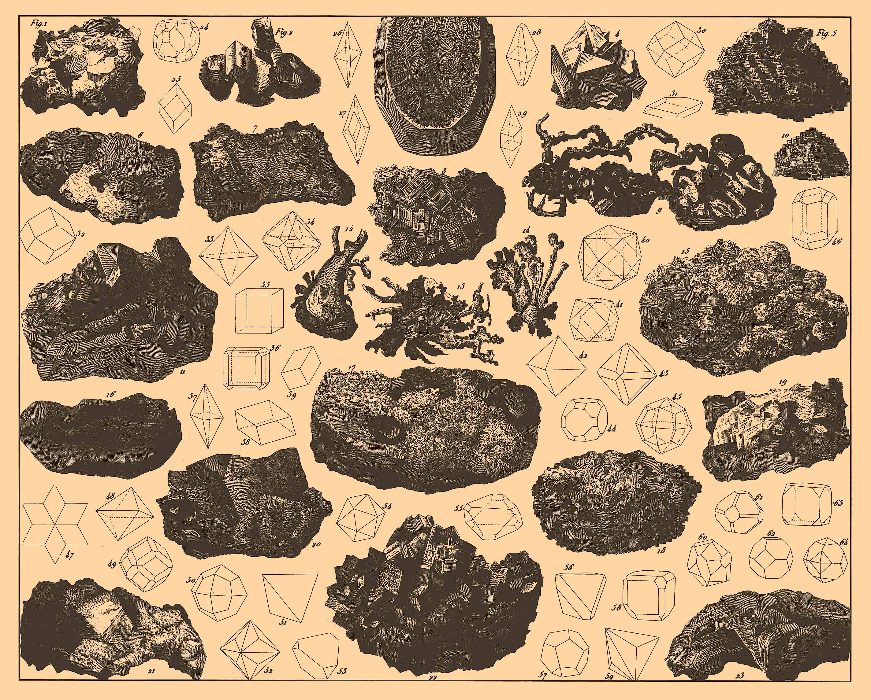 Illustration from Brockhaus and Efron Encyclopedic Dictionary (1890—1907)